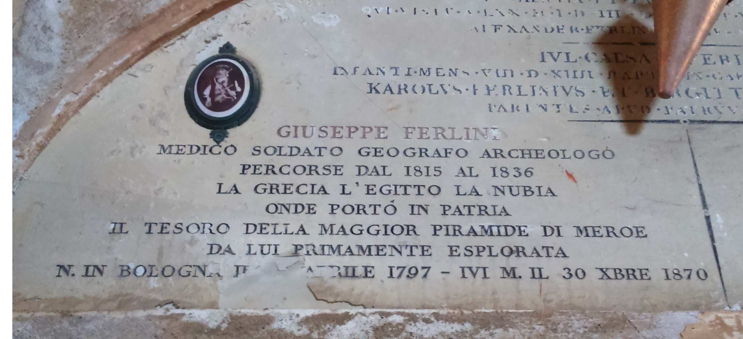 Tomb of the Italian medic and explorer Giuseppe Ferlini at the Certosa di Bologna. The inscription says: "Giuseppe Ferlini, medic, soldier, geographer, archaeologist, between 1815 and 1836 he travelled across Greece, Egypt and Nubia where he brought to his homeland the treasure of the greatest pyramid of Meroe, first explored by him. Born in Bologna, April 23, 1797 - died here in December 30, 1870."